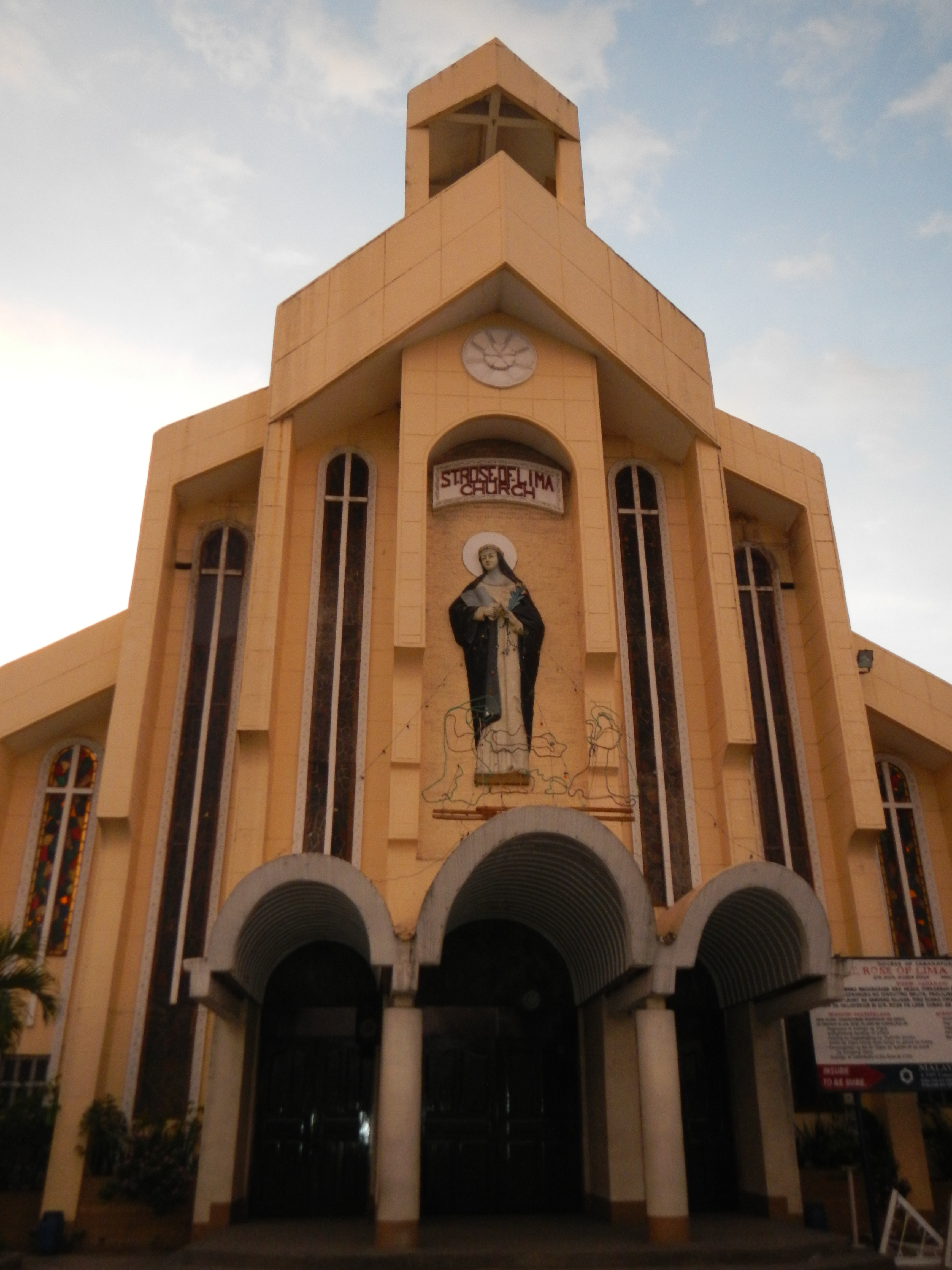 1879 St. Rose Of Lima Parish Church, Sta Rosa, Nueva Ecija - Vicariate of St. Rose of Lima, Vicar Forane: Fr. Rommel B. Javaluyas Sta. Rosa (F-1879), 3101 Nueva Ecija; Tel./Fax: 311-1865 Titular: St. Rose of Lima, Aug 23 Parish Priest: Fr. Robert I. dela Cruz[1][2]Rev. Fr. Jacinto L. Beltran (Ecology) Feast August 23 Santa Rosa, Nueva Ecija[3]